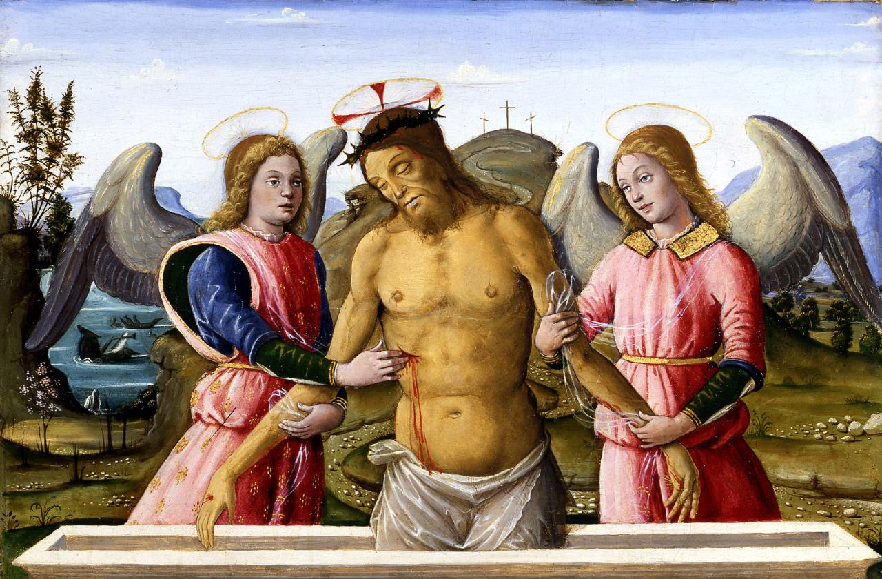 Also referred to as The resurrection of Christ with two angels